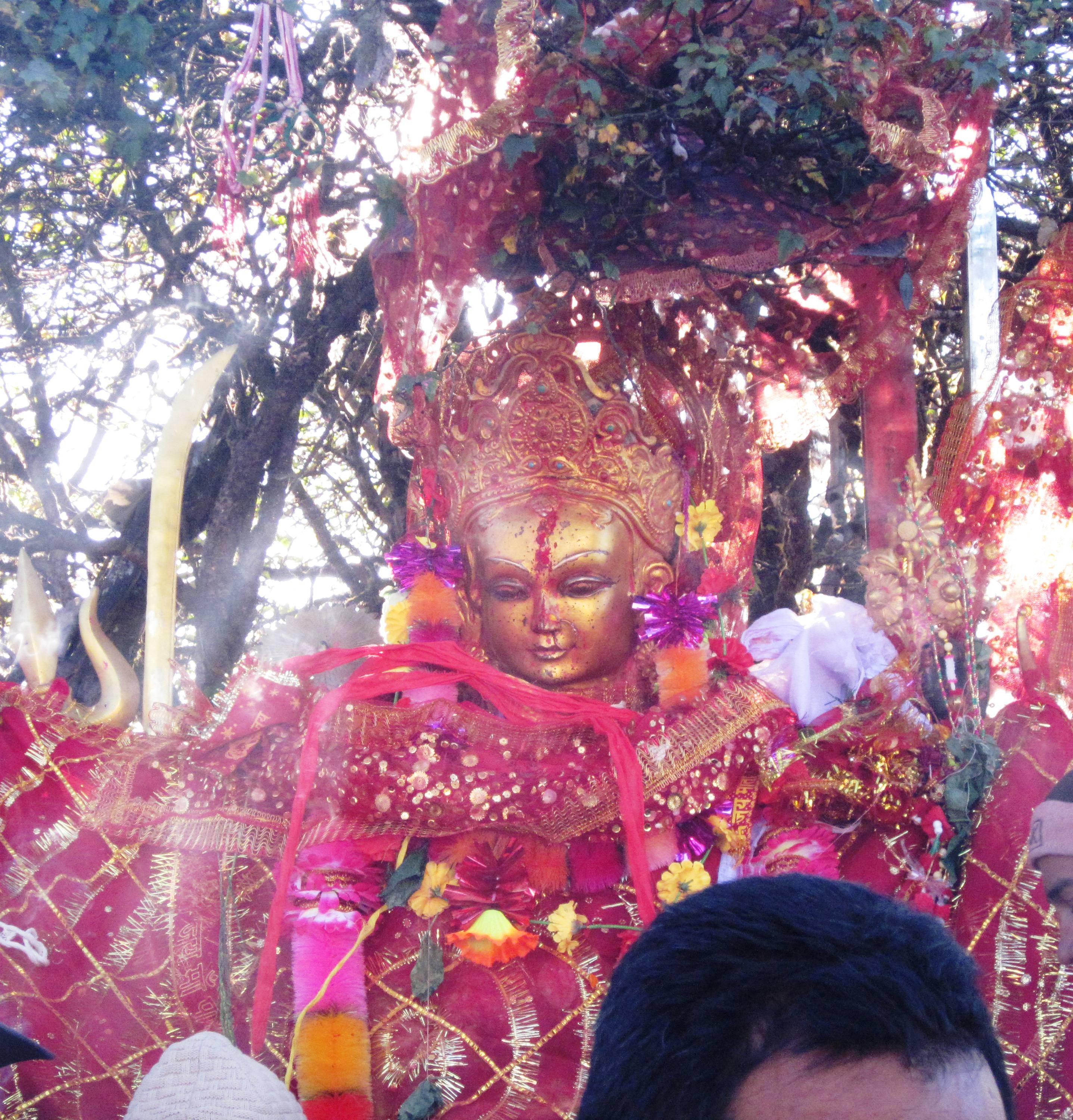 Pathibhara Devi temple, located above 19.4 km east of Phungling municipality, is considered a sacred site for Hindus and Buddhists alike.